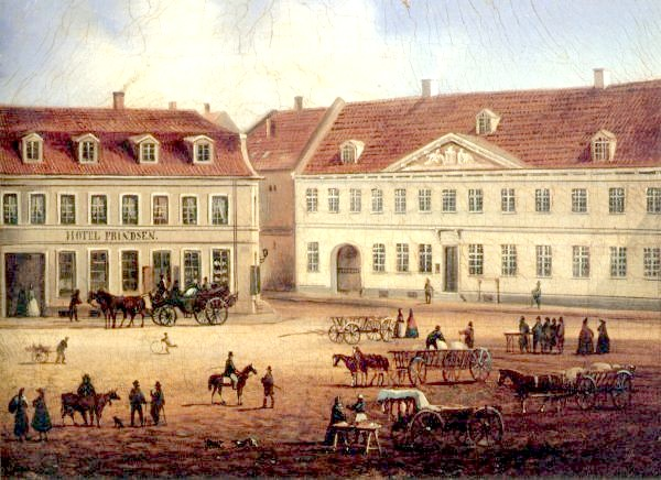 Køge Town Hall (right) in Køge, Denmark.